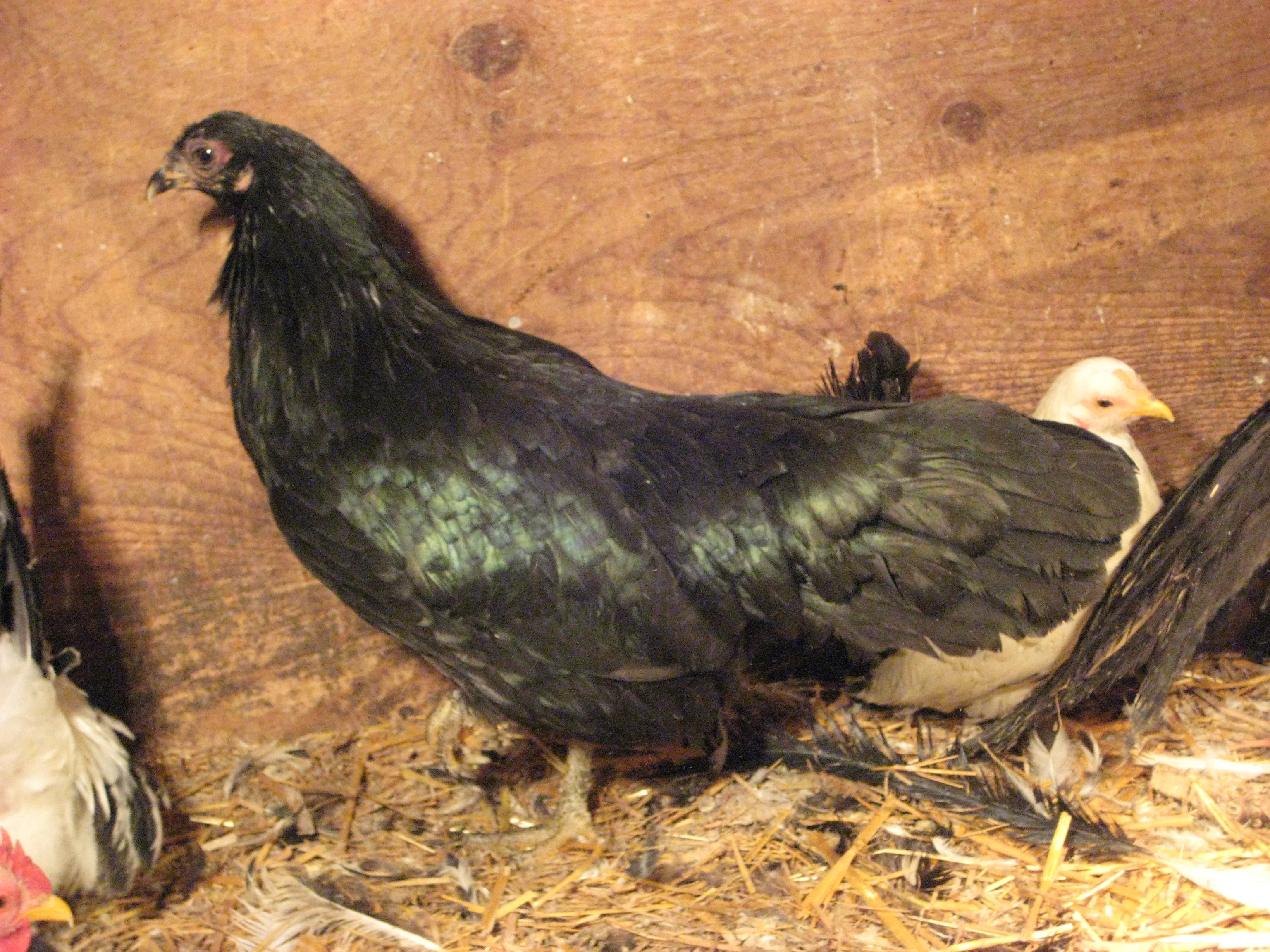 Sumatra hen